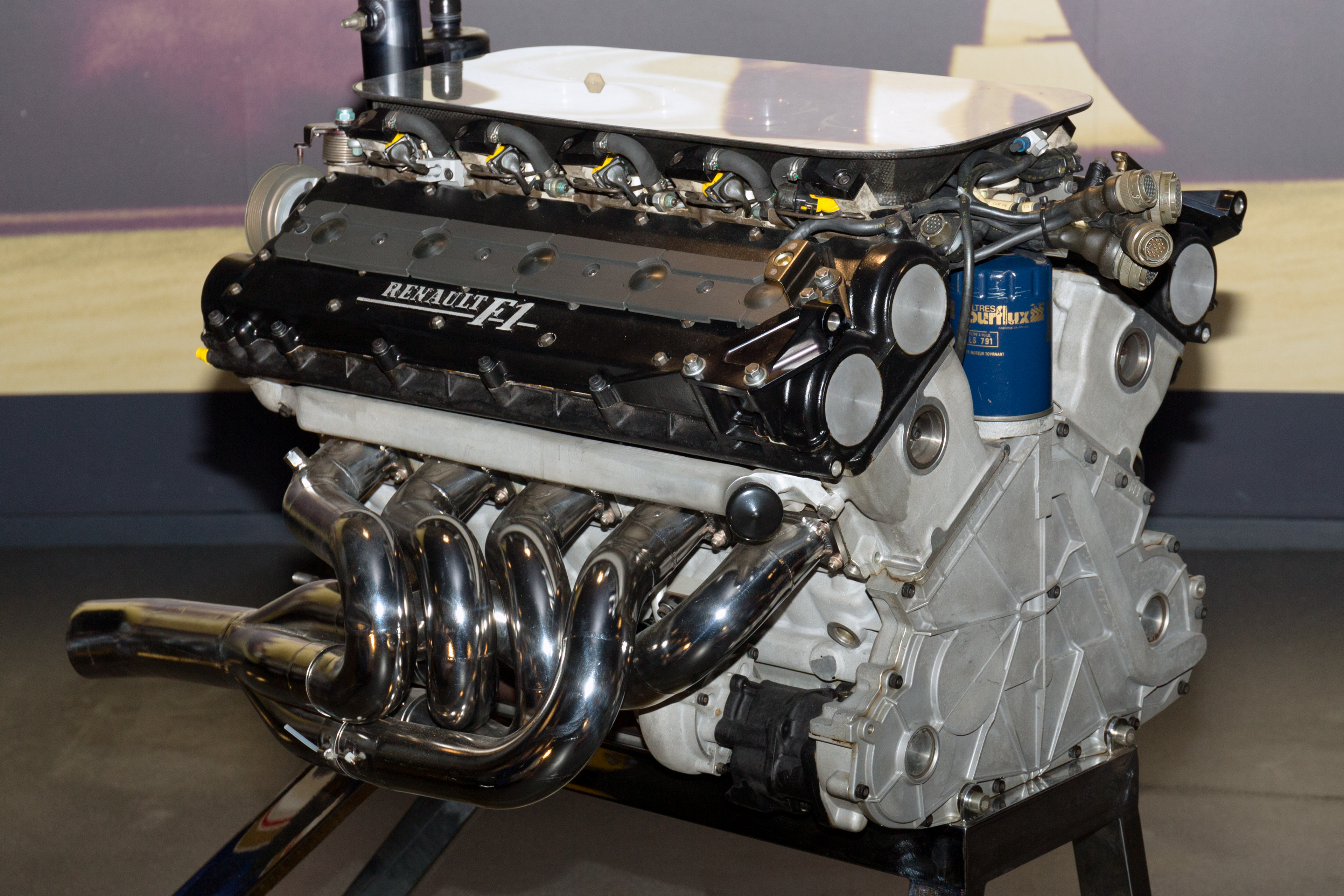 Williams Conference Centre (Grove): Renault RS2 engine